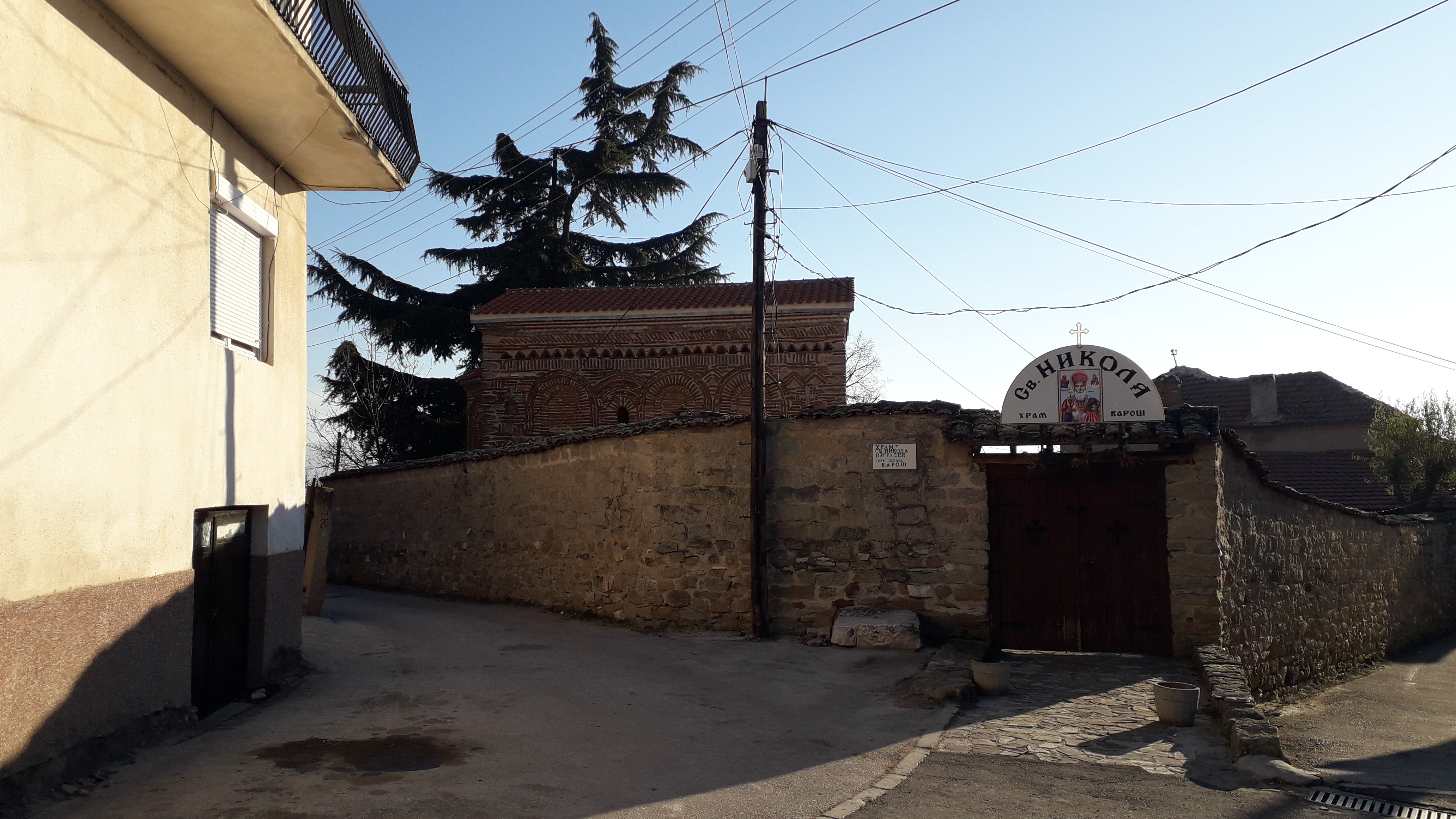 Sv. Nikola, Varosh